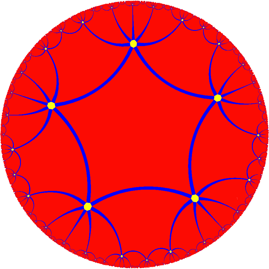 KaleidoTile, Topology and Geometry Software, Jeff Weeks Hyperbolic plane regular tiling: {5,7 }